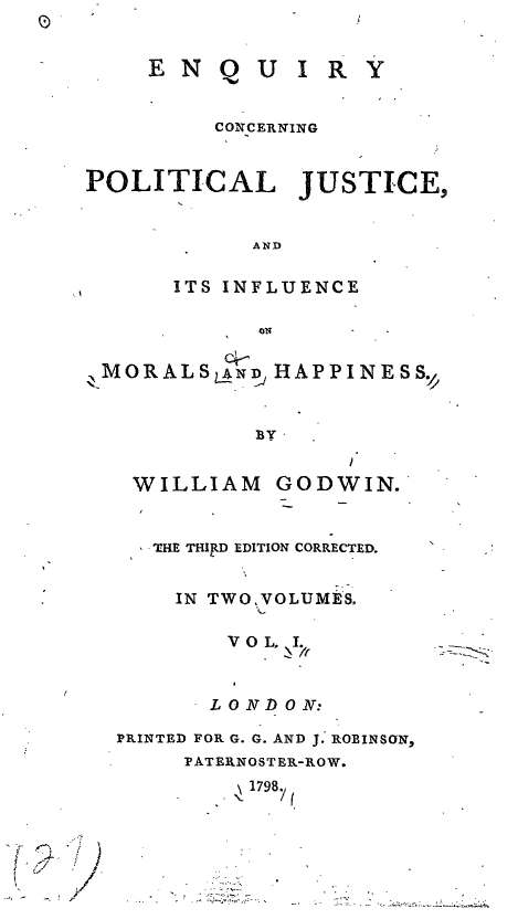 Title page from the third edition of Political Justice